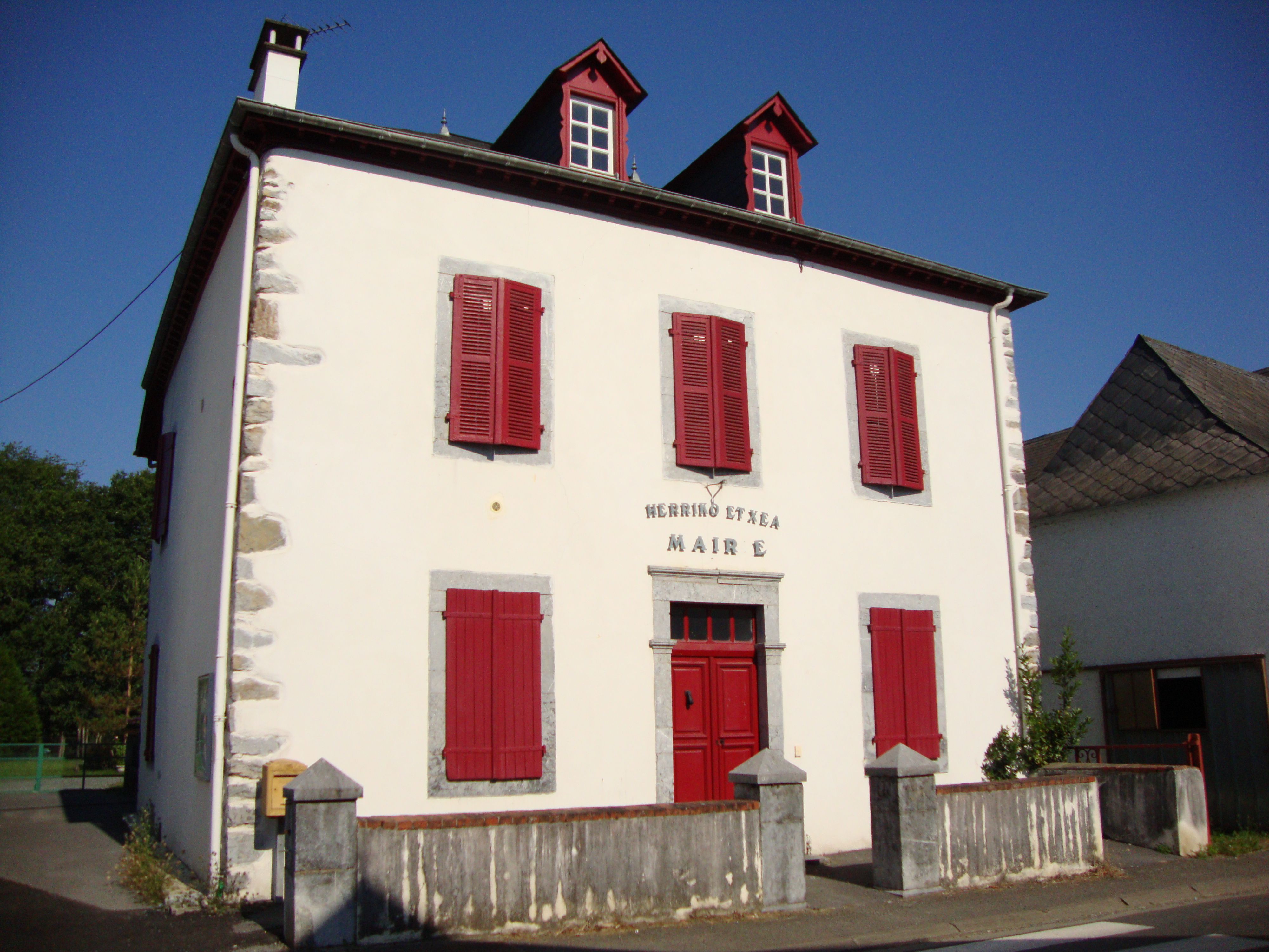 Troisvilles (Pyr-Atl, Fr) town hall